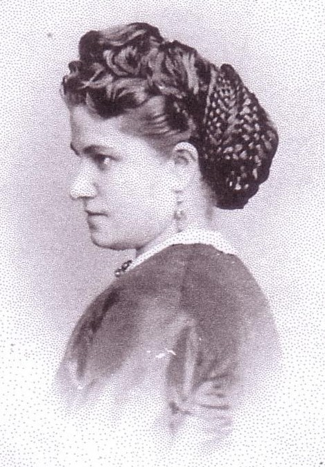 portrait of Anna Magdalena Appel, Freifrau von Hochstädten (* 8. März 1846 in Darmstadt; † 19. Dezember 1917 in Wiesbaden)